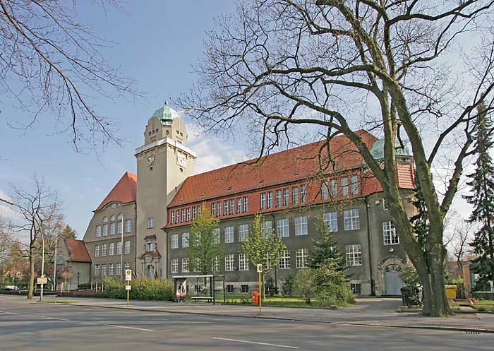 arndt-gymnasium dahlem